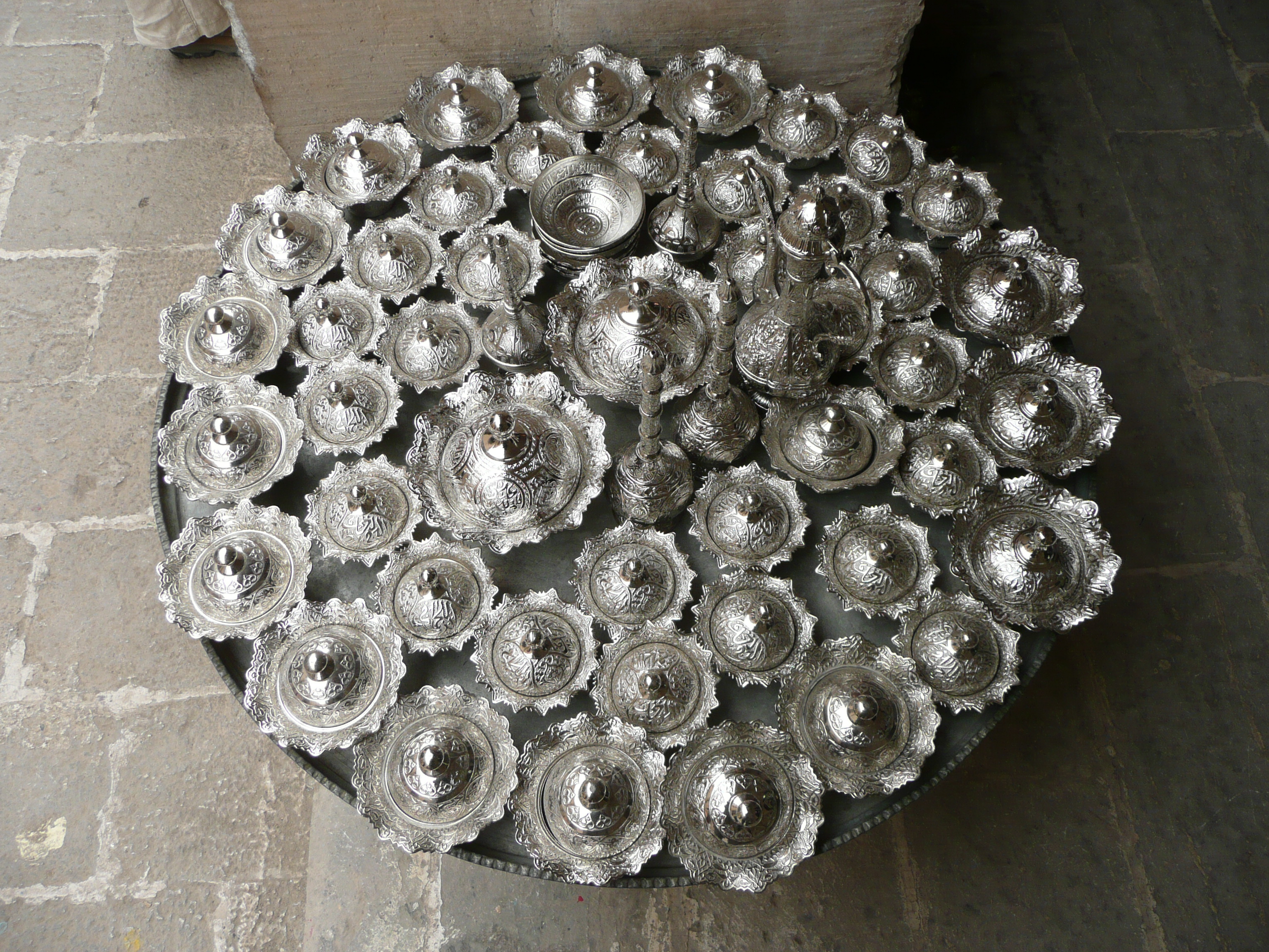 Photographs from Mardin, Turkey